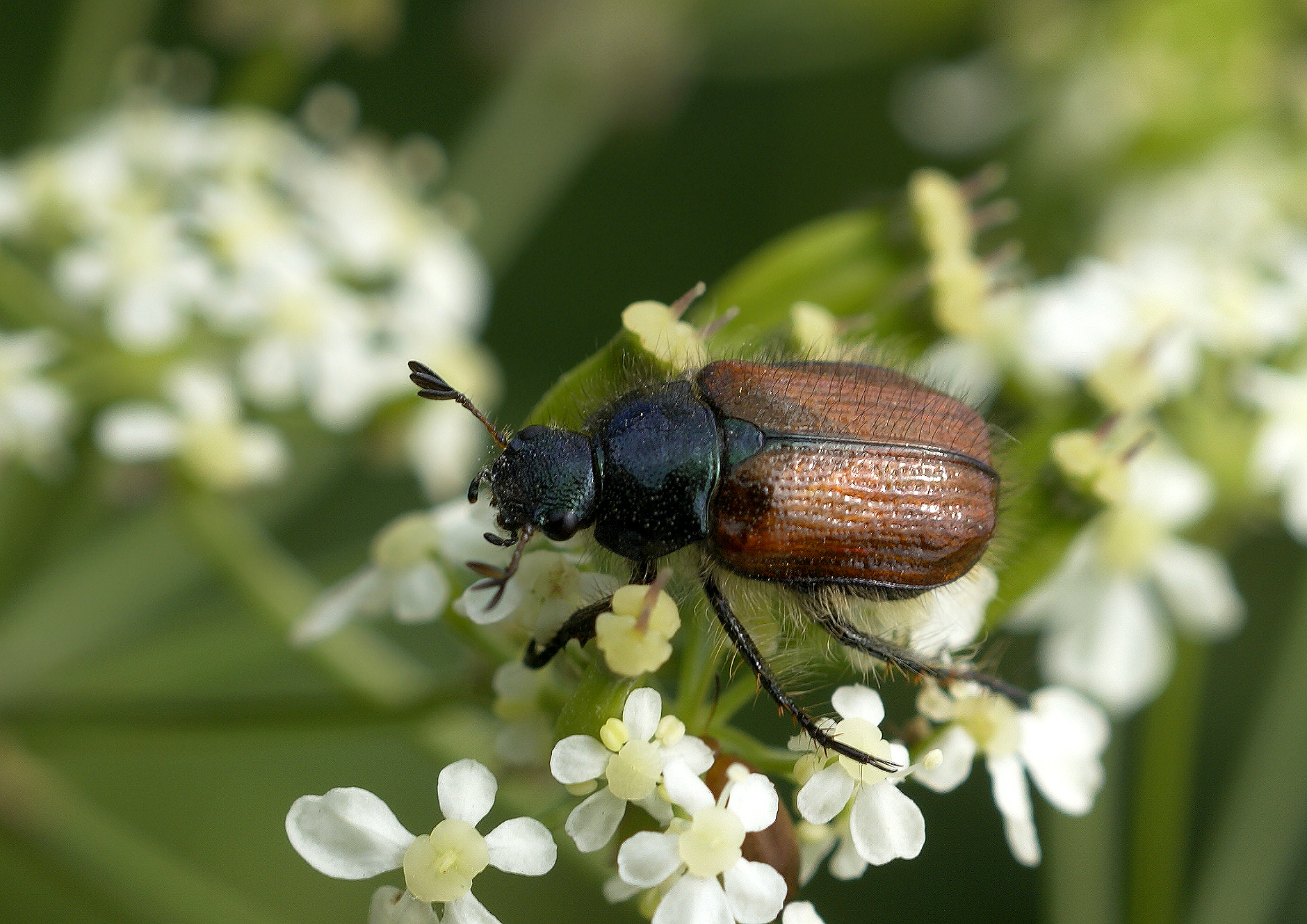 Garden Chafer on Ground-elder at Vosseslag, De Haan, Belgium